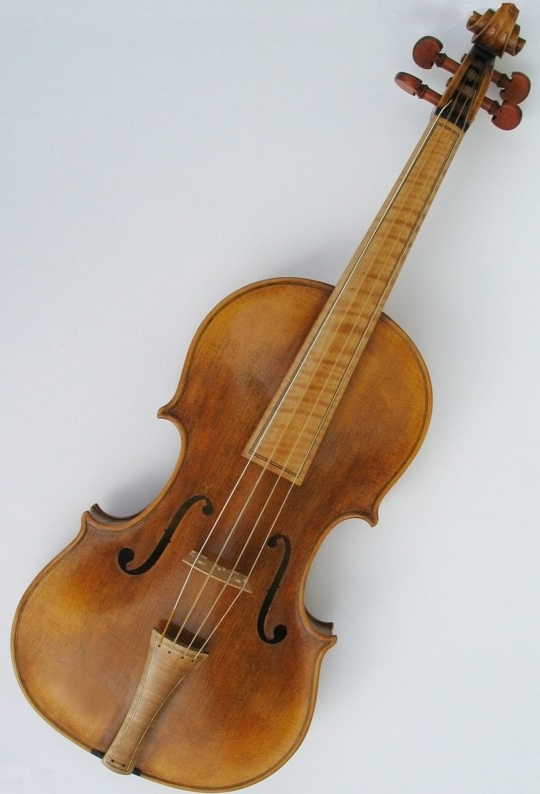 Baroque-style Violin of modern manufacture. Note the three gut strings, and the absence of a chinrest.